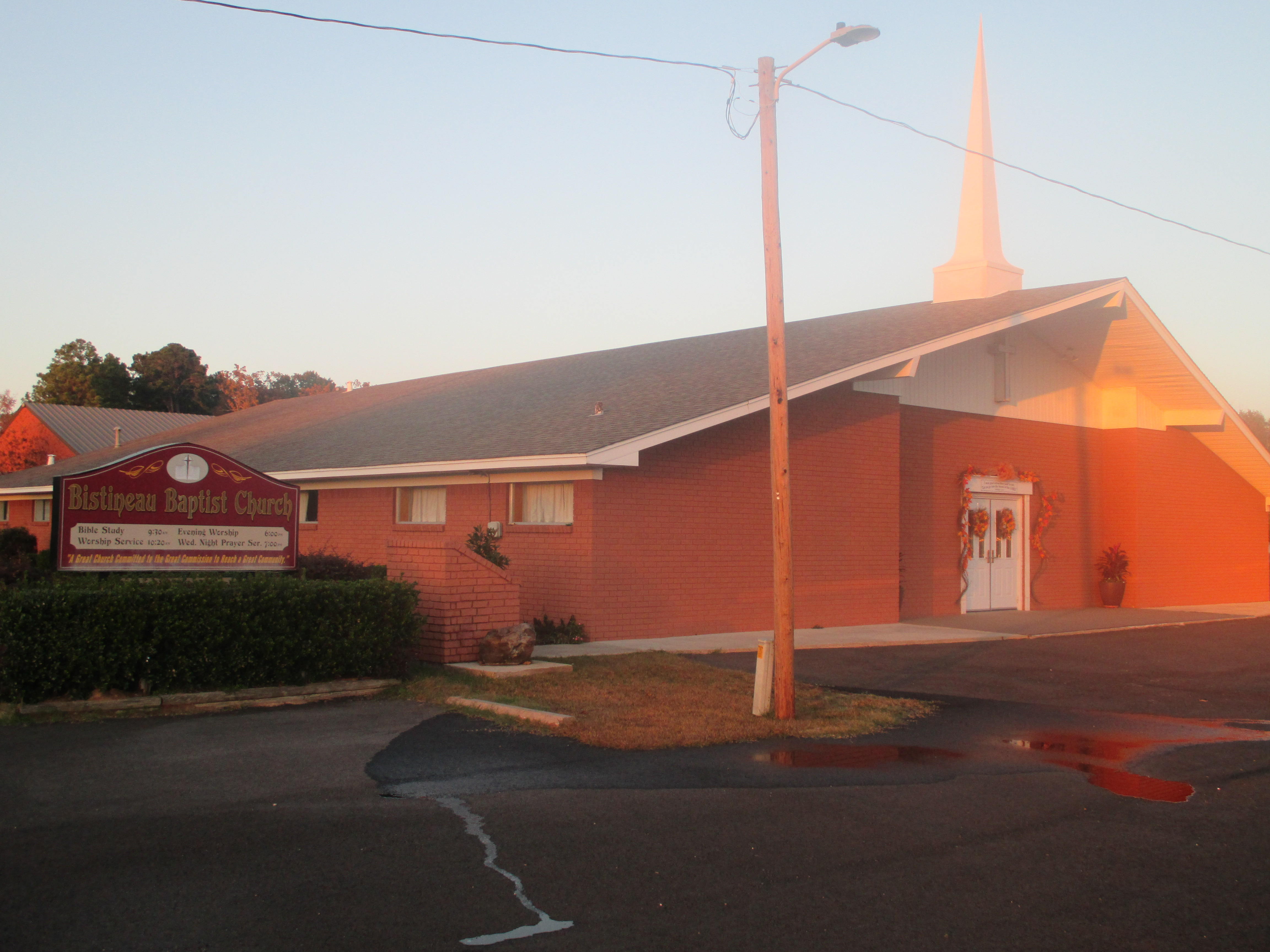 I took photo of Bistineau Baptist Church near Heflin, LA, with Canon camera.